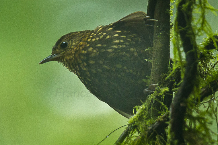 Spotted Barbtail - South Ecuador_S4E8606